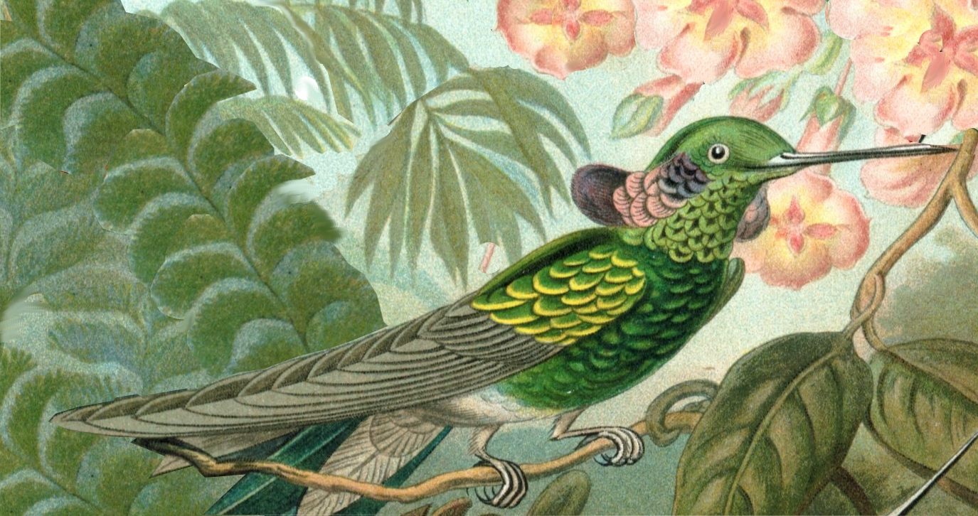 Male White-vented Violetear